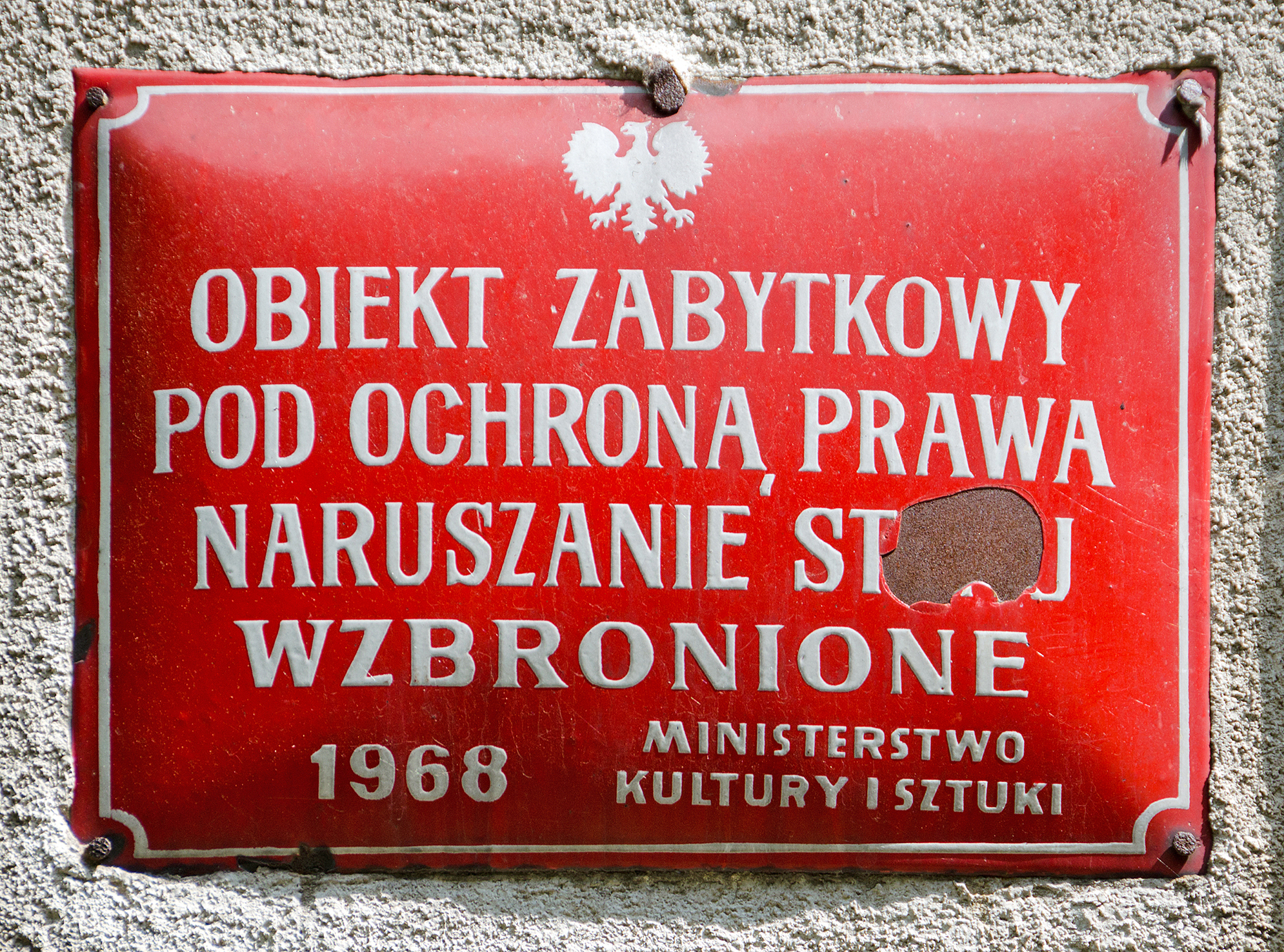 Saint Florian chapel in Bystrzyca Kłodzka, distinctive emblem for the Protection of Cultural Property in Poland